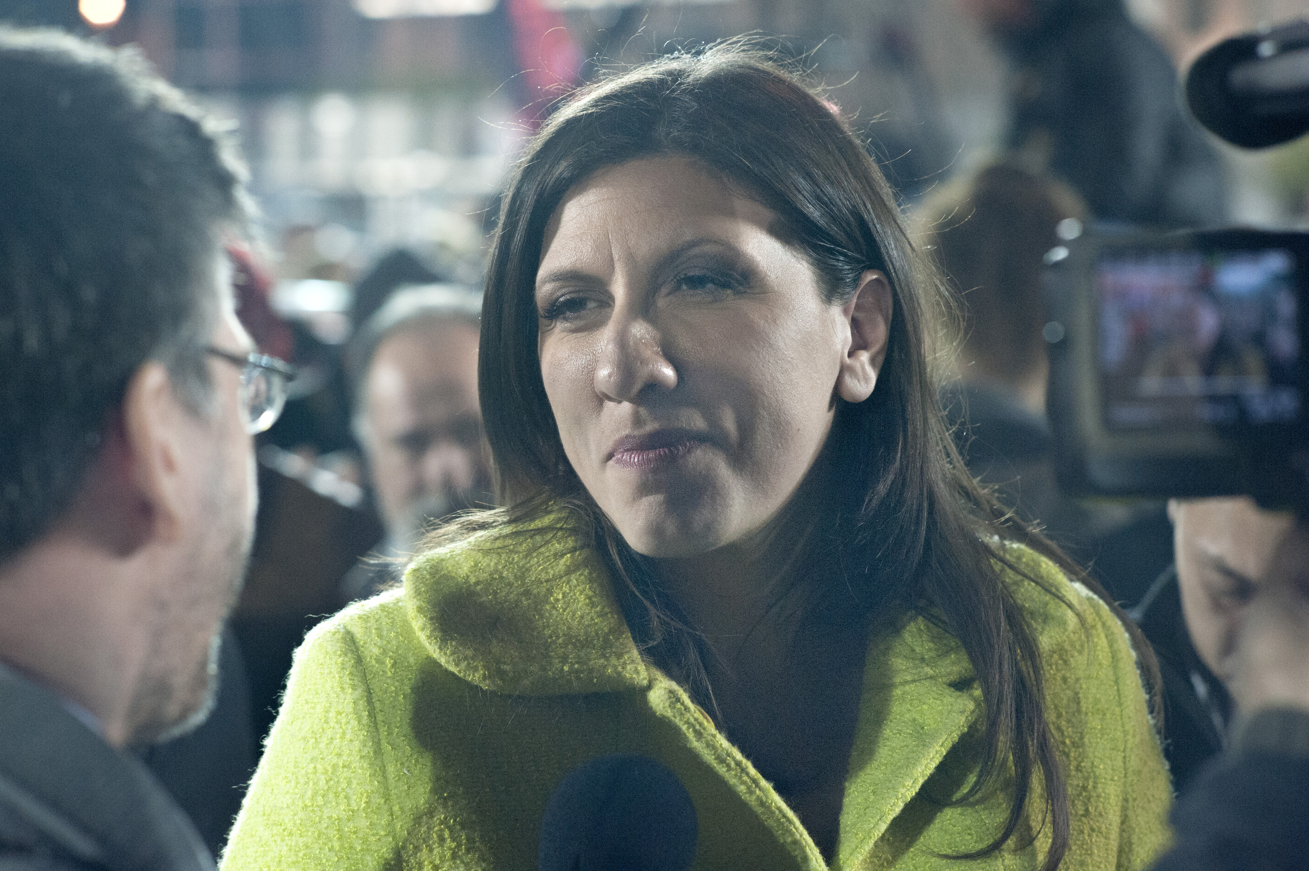 Zoi Konstantopoulou, Greek lawer and politicial (with SYRIZA).